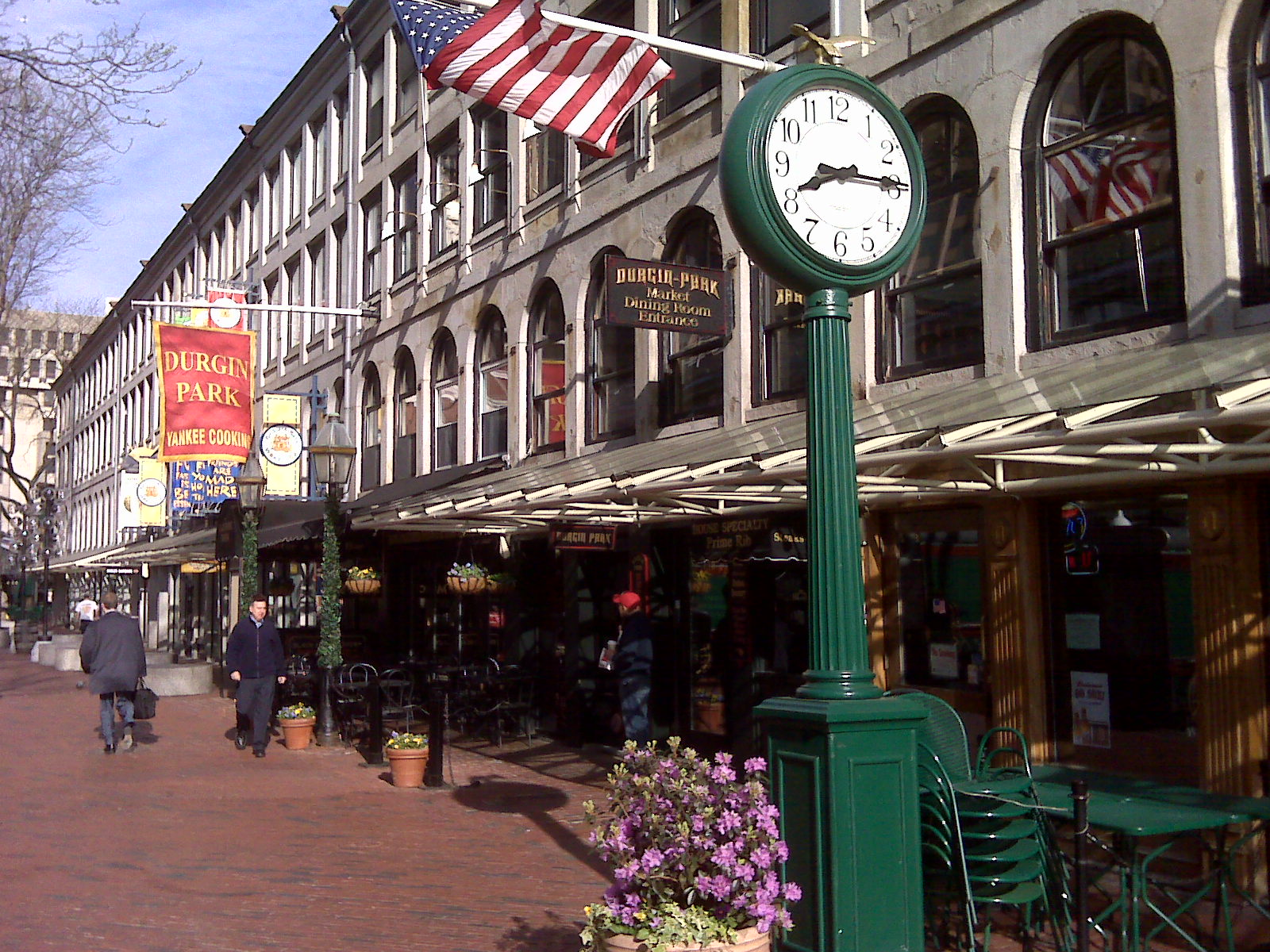 Photograph of the entrance to Durgin Park, one of the oldest restaurants in Boston, located near Faneuil Hall.